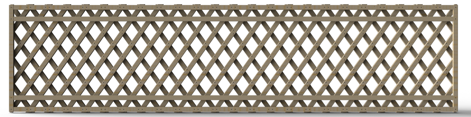 Lattice truss (PINE=ZBOUB=LIKE=SUUUUUUUUUCE) Made with Solidworks and Photoview 360 add-on